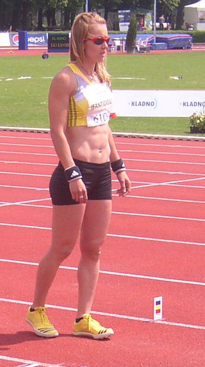 Athlete Sofia Ifadidou of Greece preparing for her second attempt in long jump during women's heptathlon at 7th edition of the TNT Express Meeting (IAAF World Combined Events Challenge Meeting, Sletiště Stadium, Kladno, Czech Republic, 9 June 2013).